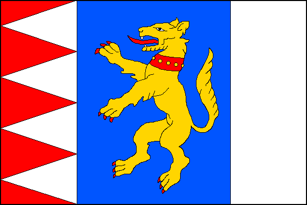 Municipal flag of Petrovice village, Bruntál District, Czech Republic.